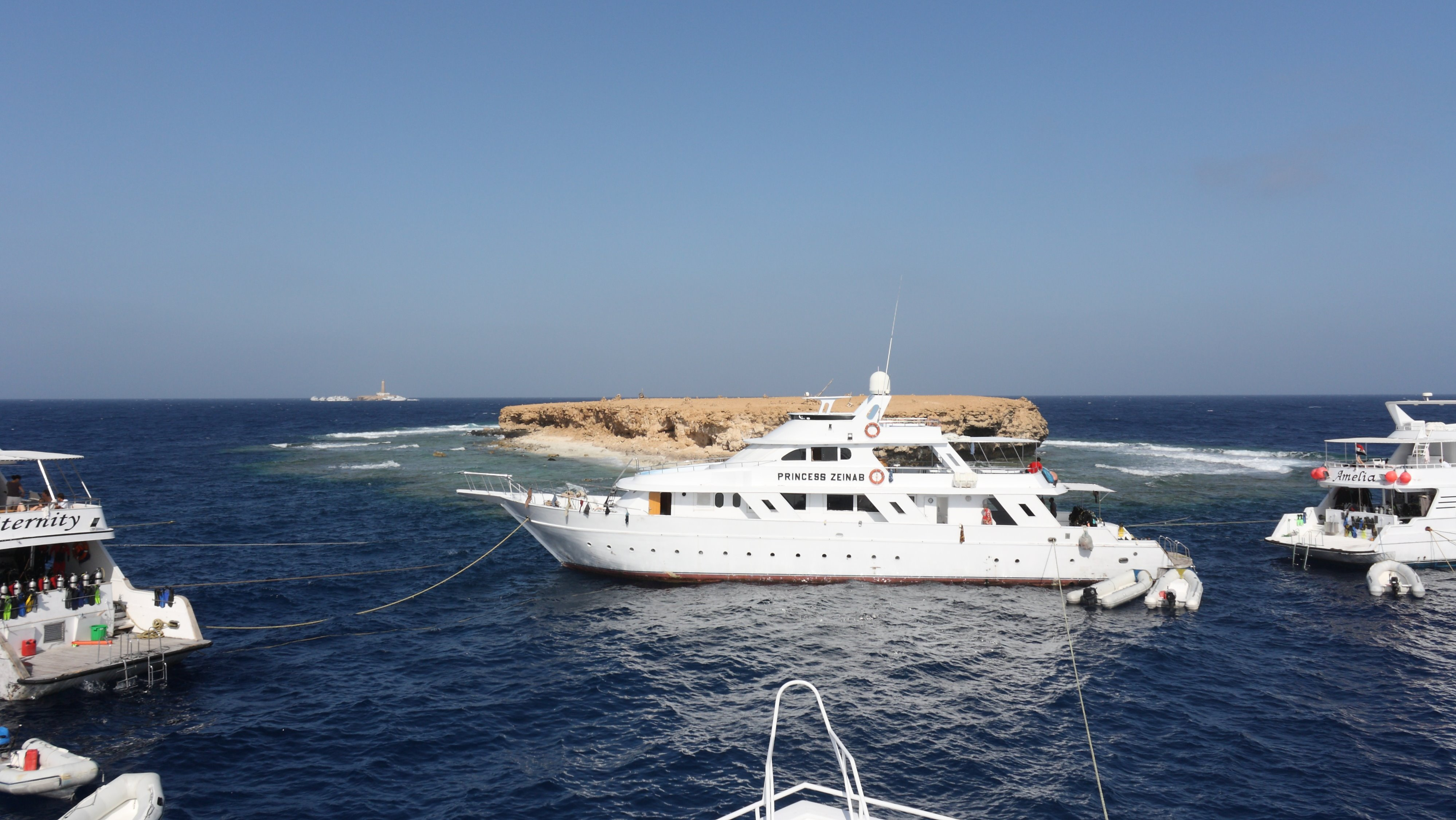 Small Brother Island in the Red Sea with the boat Princess Zeinab and a several other dive safari boats anchored to it. In the far left near horizon one can see Big Brother Island with a lighthouse surrounded by other dive safari boats.